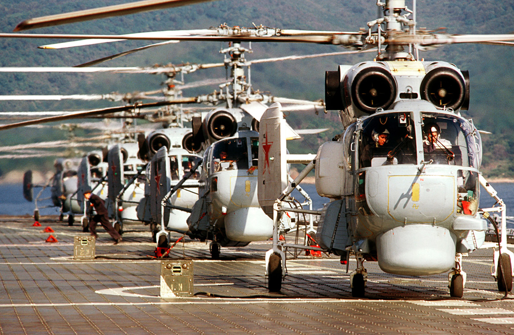 “Helicopters on deck of the Novorossiisk cruiser”. The Order of the Red Banner Pacific fleet. Ship-based aviation on deck of the Novorossiisk aircraft-capable cruiser.